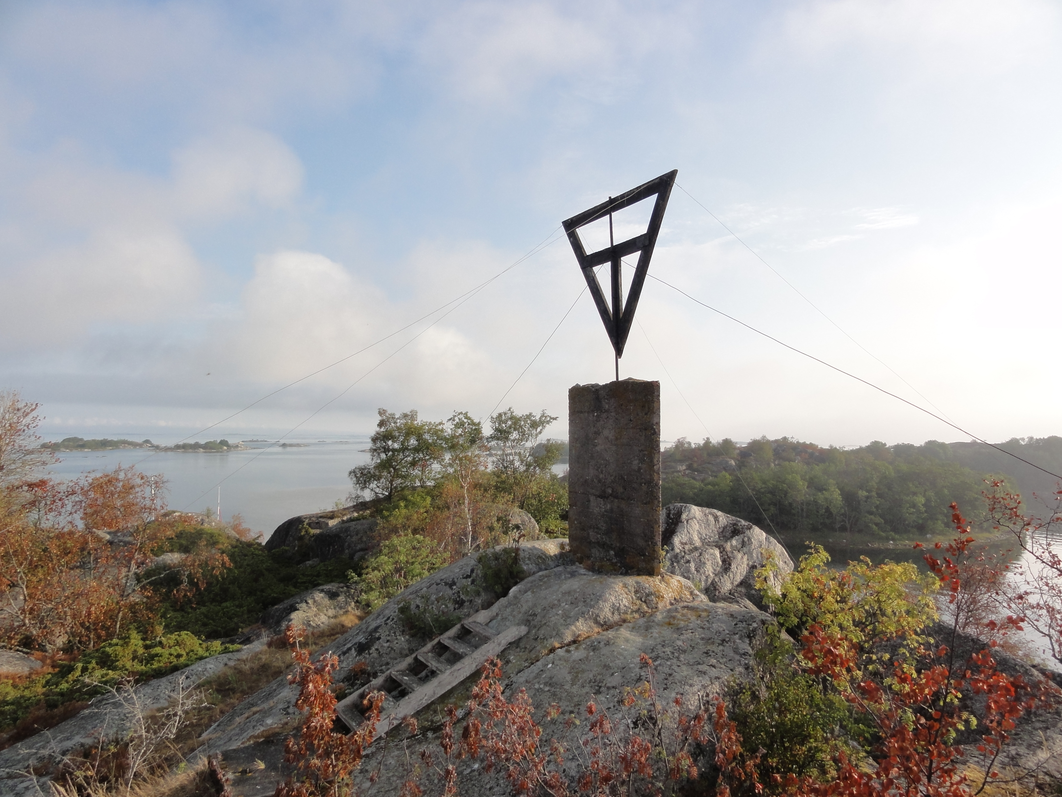 Mark at Storskär in Norrpada archipelago risen by Pelarorden